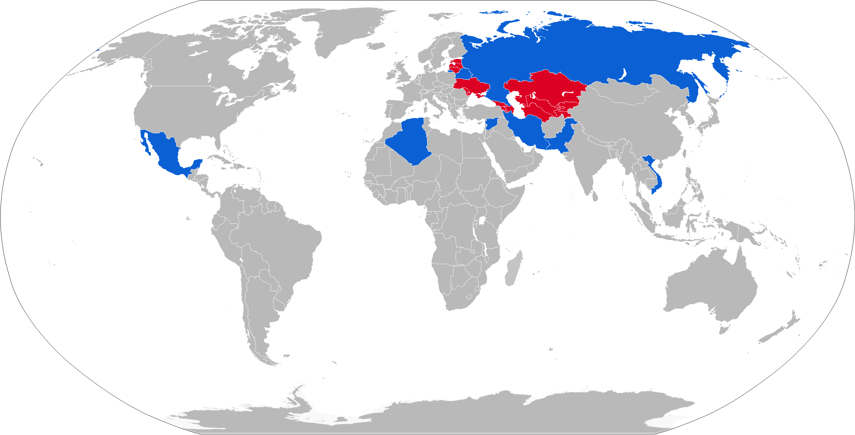 Map with RPG-29 operators in blue and former operators in red